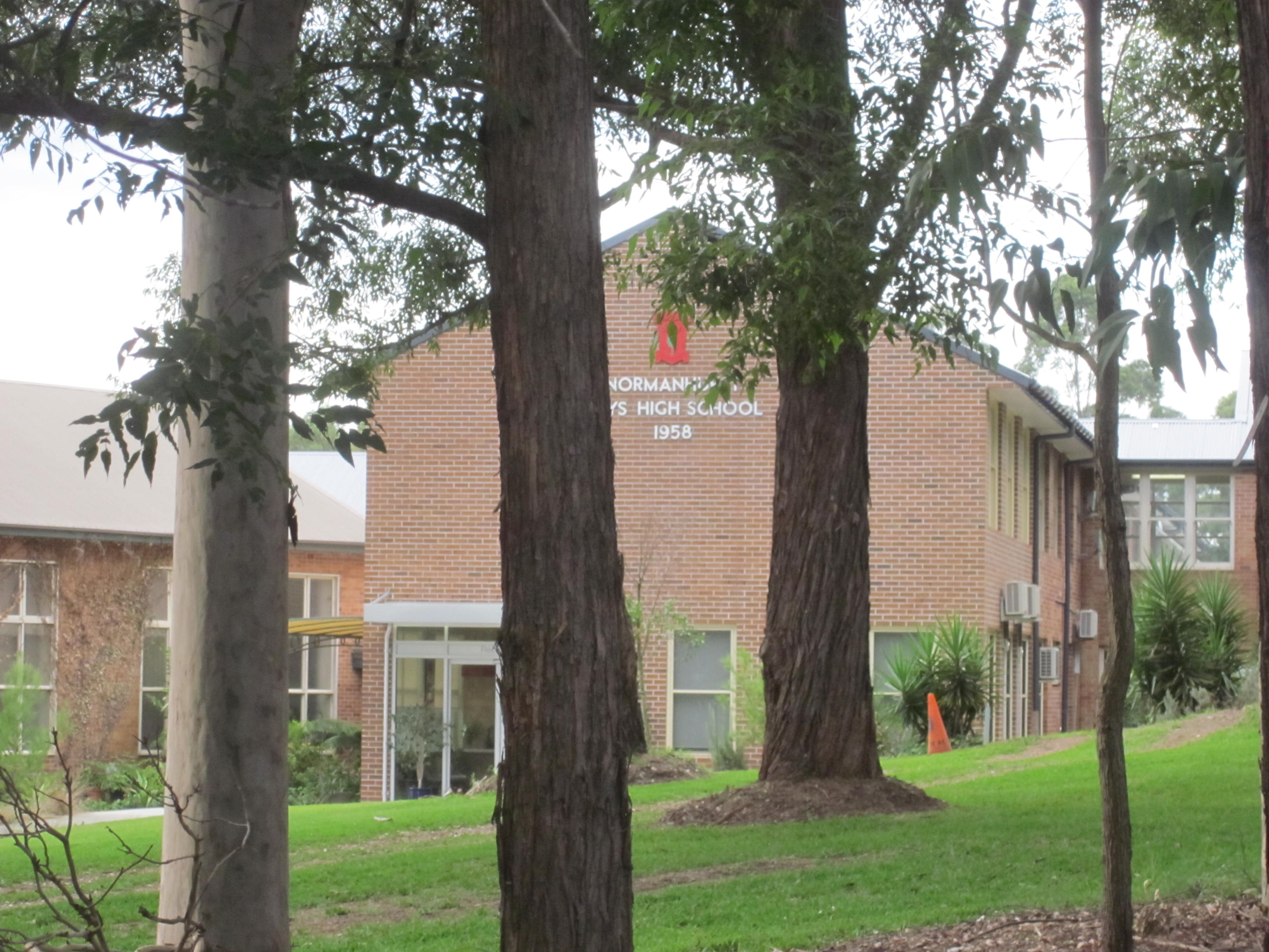 Normanhurst Boys' High School, 54-72 Pennant Hills Road, Normanhurst, New South Wales